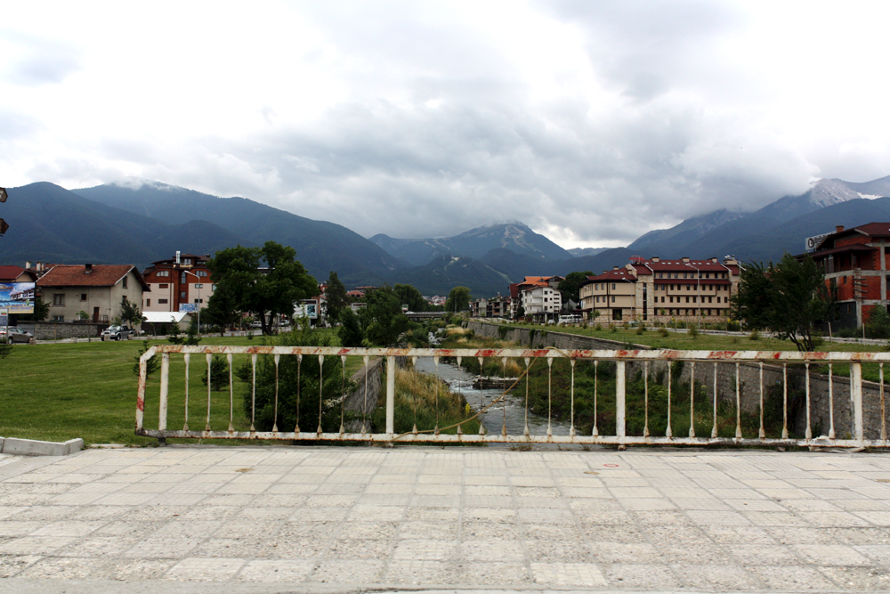 Glazne river through Bansko, Bulgaria